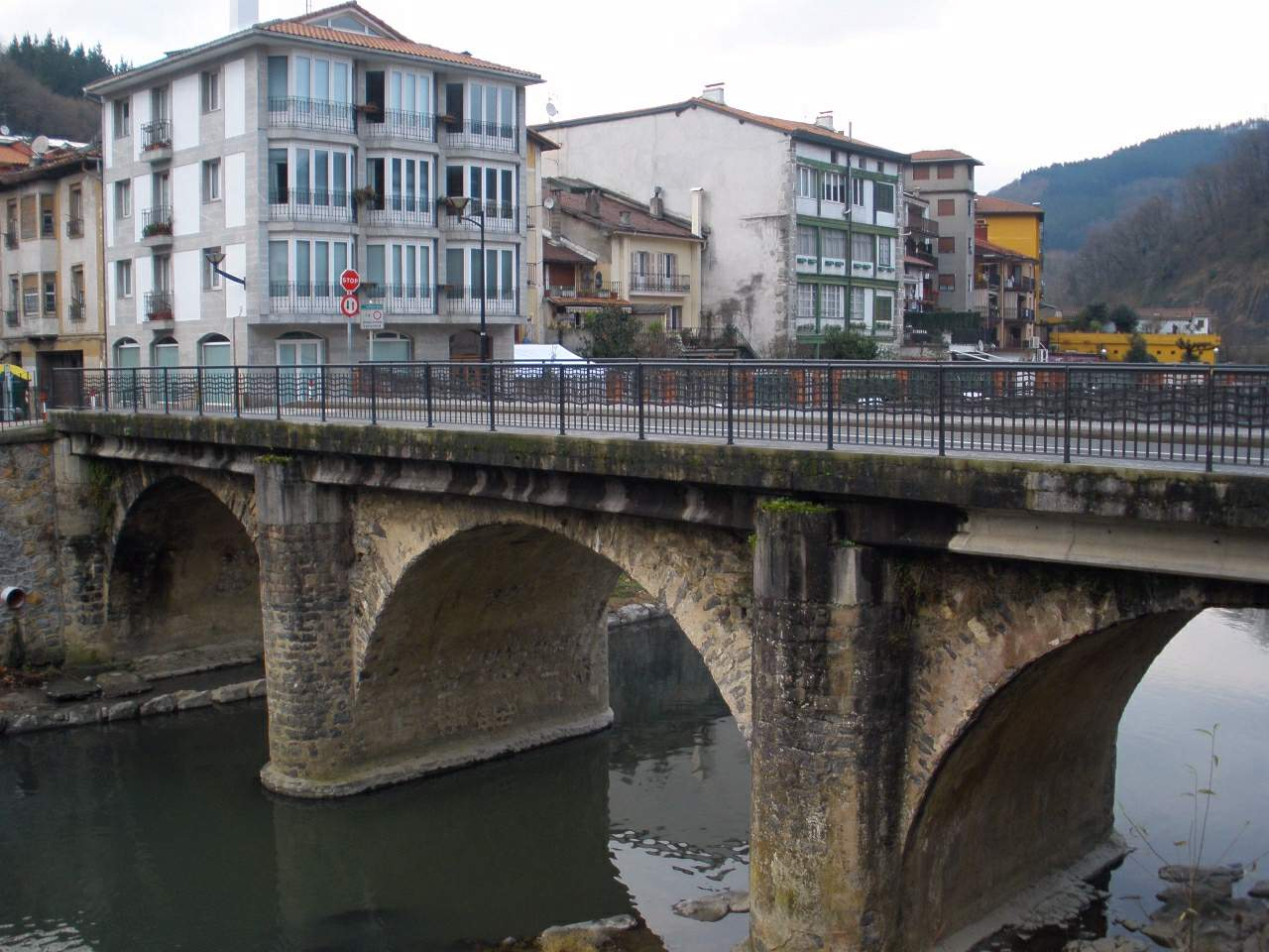 Alegia y río Oria (Guipúzcoa)